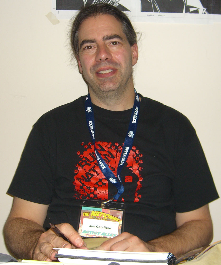 Comic book creator Jim Calafiore at the November 2008 Big Apple Convention in Manhattan.